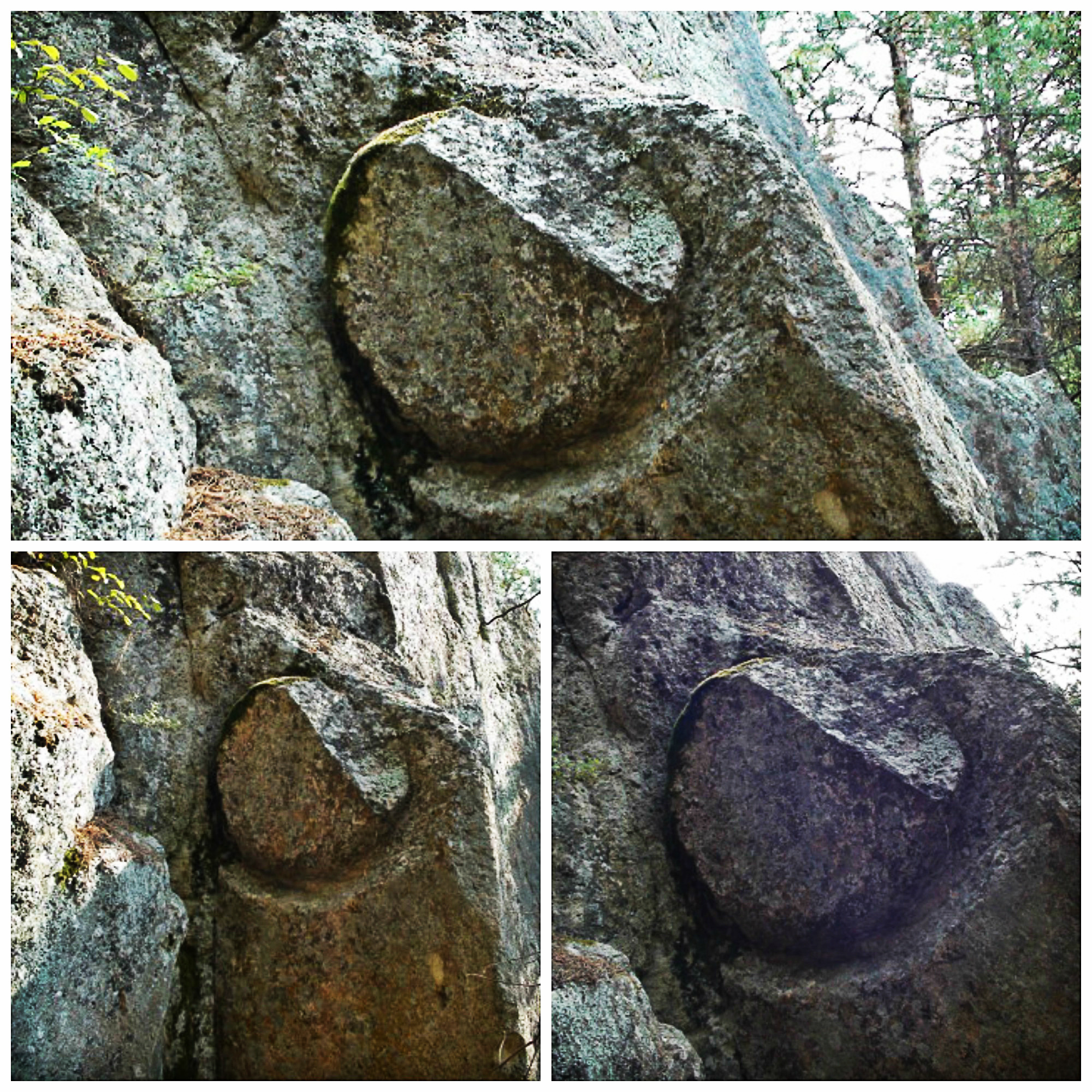 Mala_Garvanitza_Solar_Sanctuary_Beraintzi_BG_1